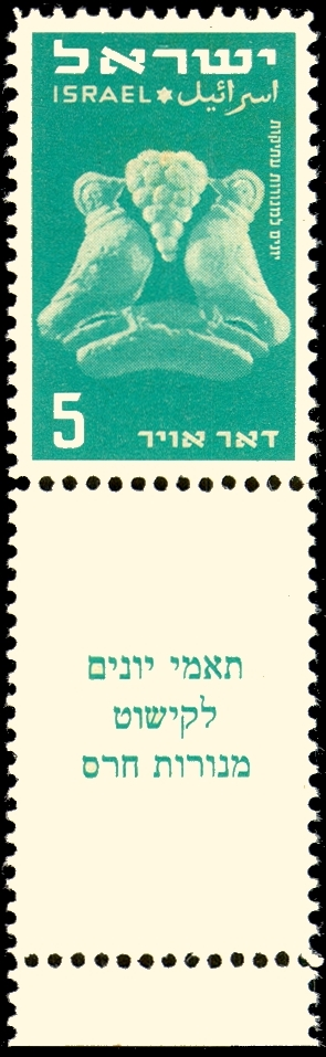 Airmail 1950 stamp- 5 mil, First definitive series. Inscription: "Doves on ancient pottery lamps". Inscription on tab: "Pair of doves as Decoration on pottery lamps".